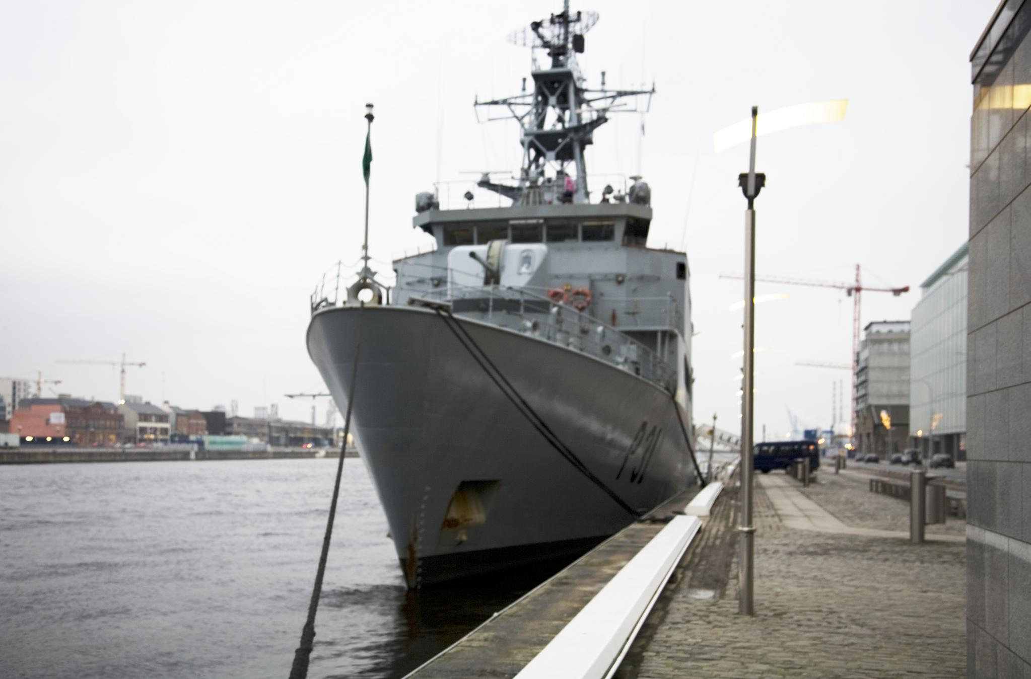 Irish Naval Service ship LÉ Eithne (P31) at Dublin, December 2007.